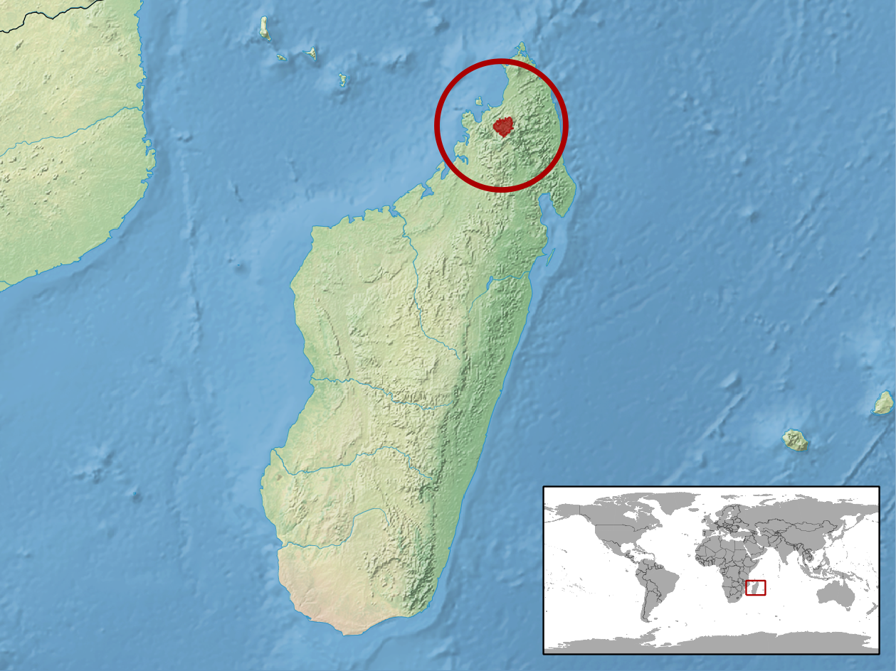 geographic distribution of Calumma guibei (Native: Madagascar)